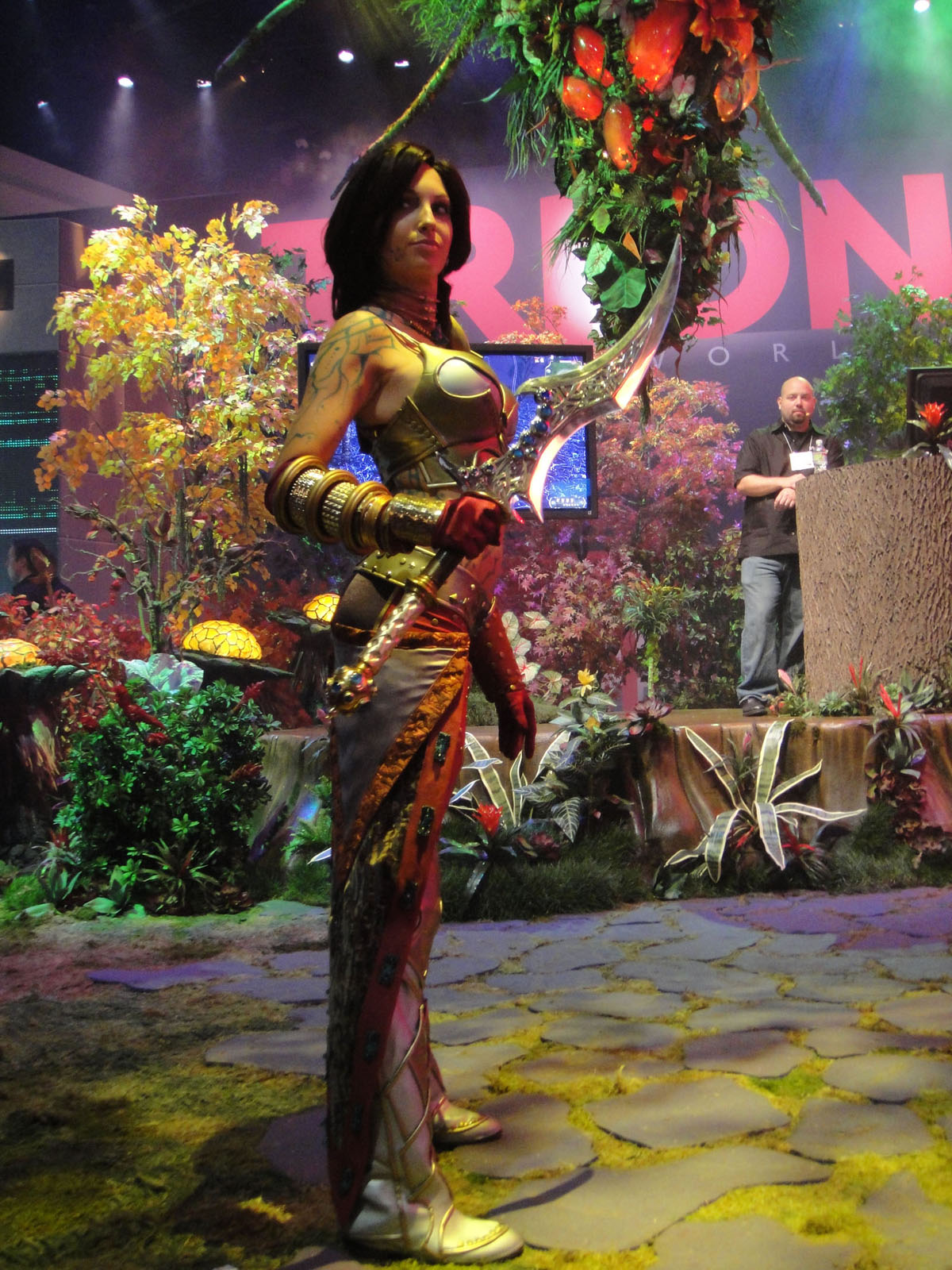 Taken on June 15, 2010 Dowtown Carrier Annex, Los Angeles, CA, US Sony DSC-T900